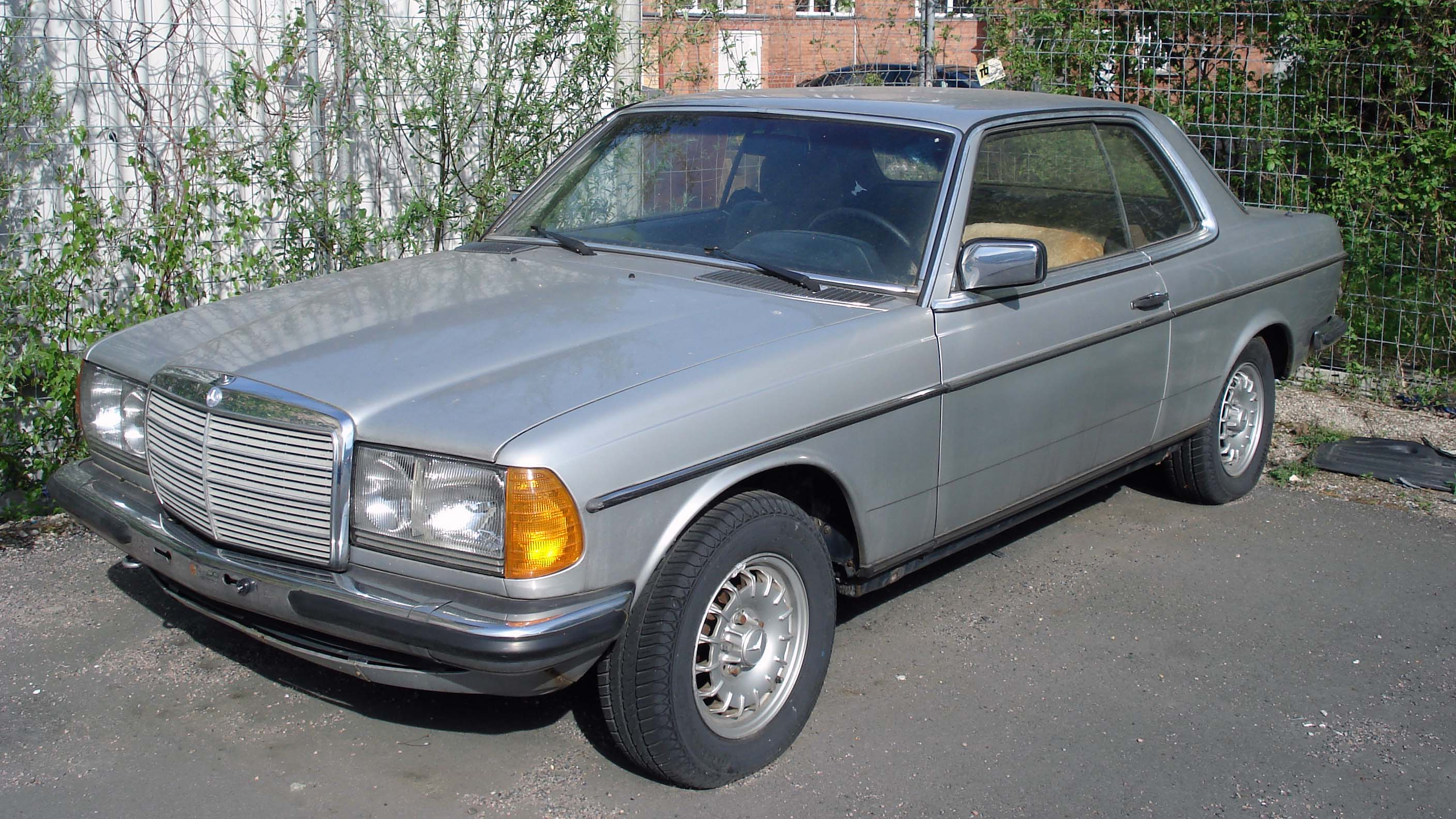 Mercedes-Benz W123 Coupe (C123)